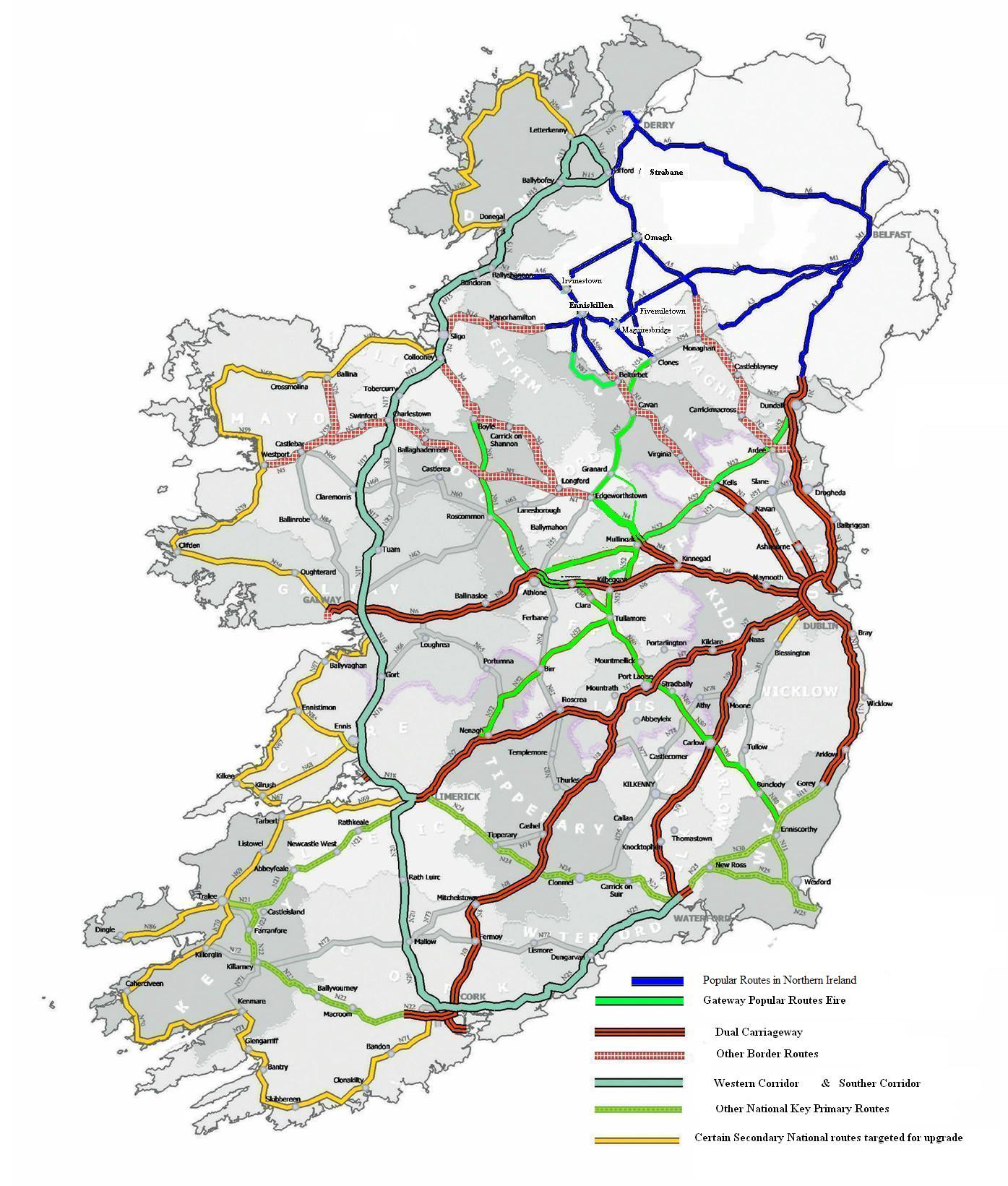 Midland Gateway Popular routes identified in green, for EIRE and Blue for six Counties of Ulster National_Roads_2007_05.JPG Own work at the dispoition with GPFL